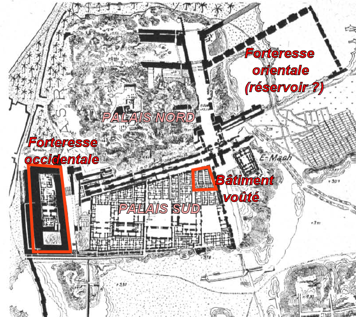 Potential locations of the Hanging Gardens of Babylon according to modern scholars, around the Kasr.